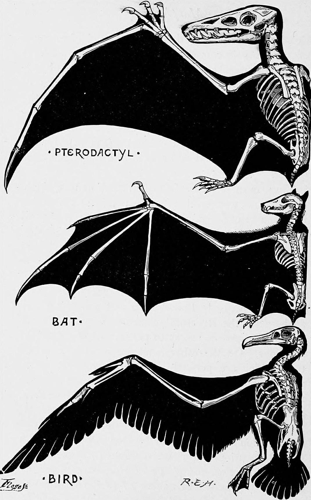 Diagram of homologous bones and analogous flying adaptions in the forelimbs of three groups of flying vertebrates both recent and fossilized: pterosaur (Pterosauria), bat (Chiroptera), bird (Aves)